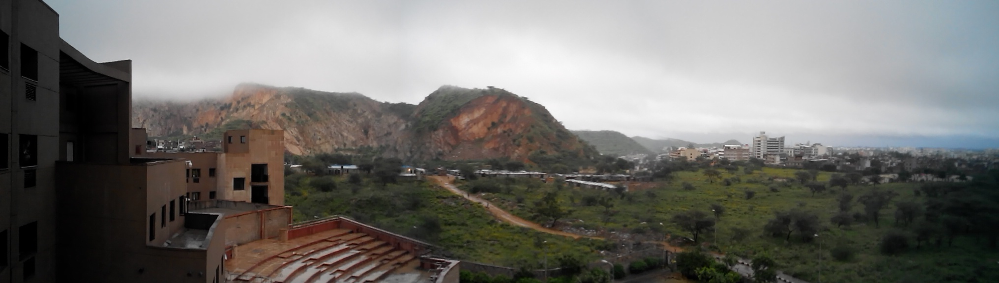 Malaviya National Institute of Technology